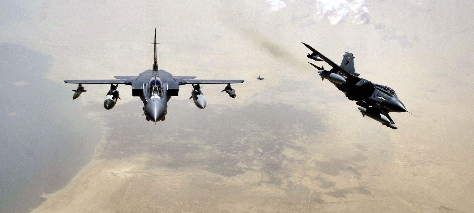 Two RAF Tornado GR-4s pull away from a KC-135 Stratotanker after refueling on Sunday, May 14, 2006. The Tornados and crews are from the 617th "[Should read: 617]" Squadron at RAF Lossiemouth, England [Should read, RAF Lossiemouth, Scotland]. The KC-135 and crew are deployed to the 340th Expeditionary Air Refueling Squadron from the 905th Air Refueling Squadron at Grand Forks Air Force Base, N.D.